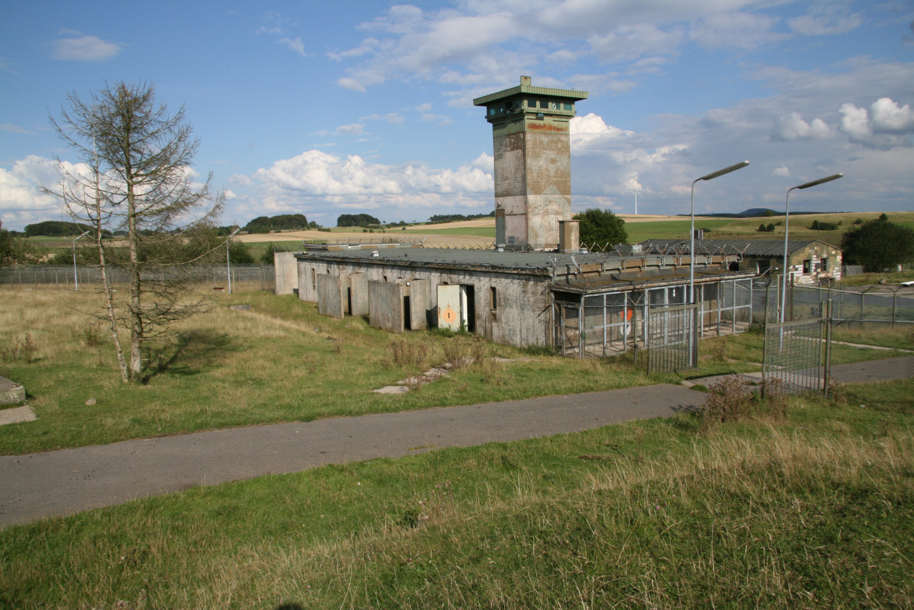 Abandoned Belgium Nike-site in Blankenheim–Reetz, district of Euskirchen, North Rhine-Westphalia, Germany